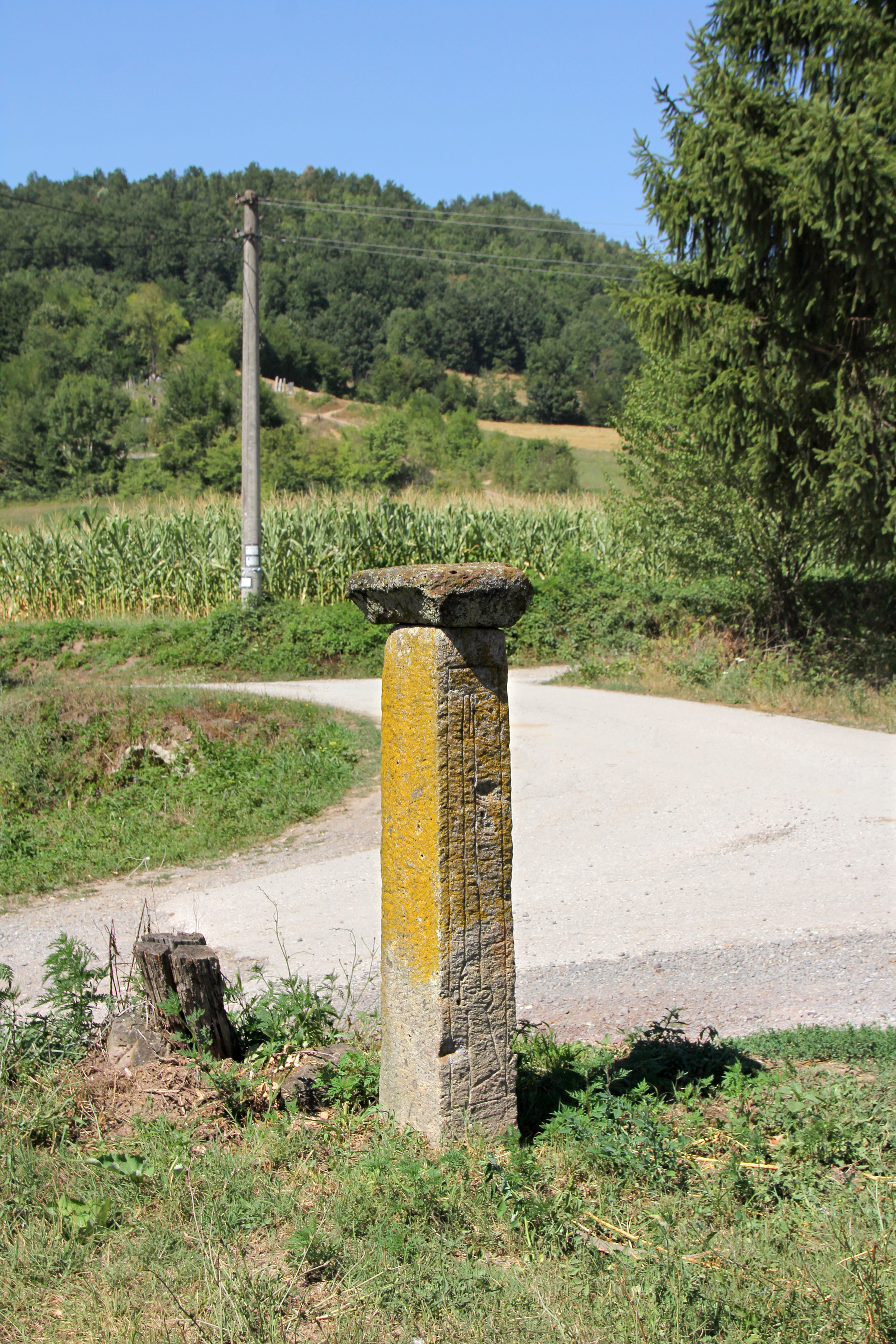 Roadside tombstone erected in memory of Milic Matic. It is located in the village of Trudelj (the municipality of Gornji Milanovac), Serbia.